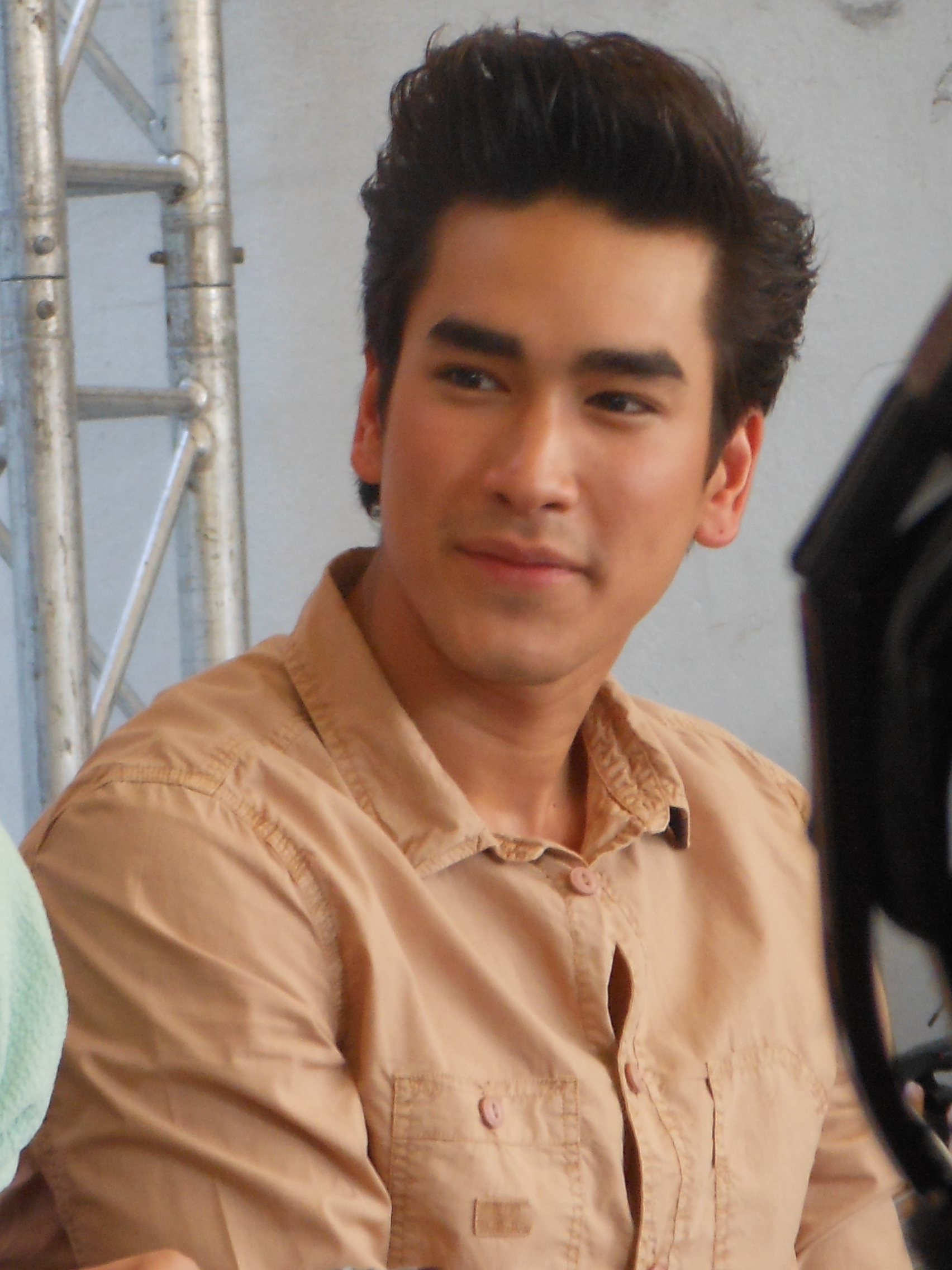 Nadech Kugimiya Signing for Thaitv3 Calendars 2013